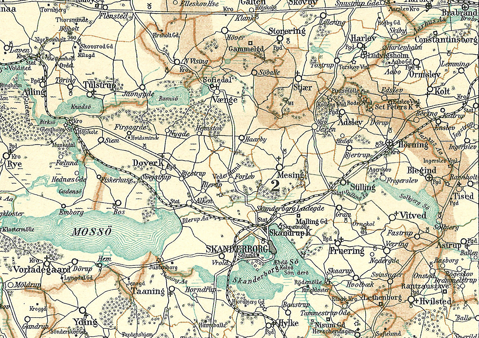 Map of Hjelmslev Herred in Skanderborg County in Denmark